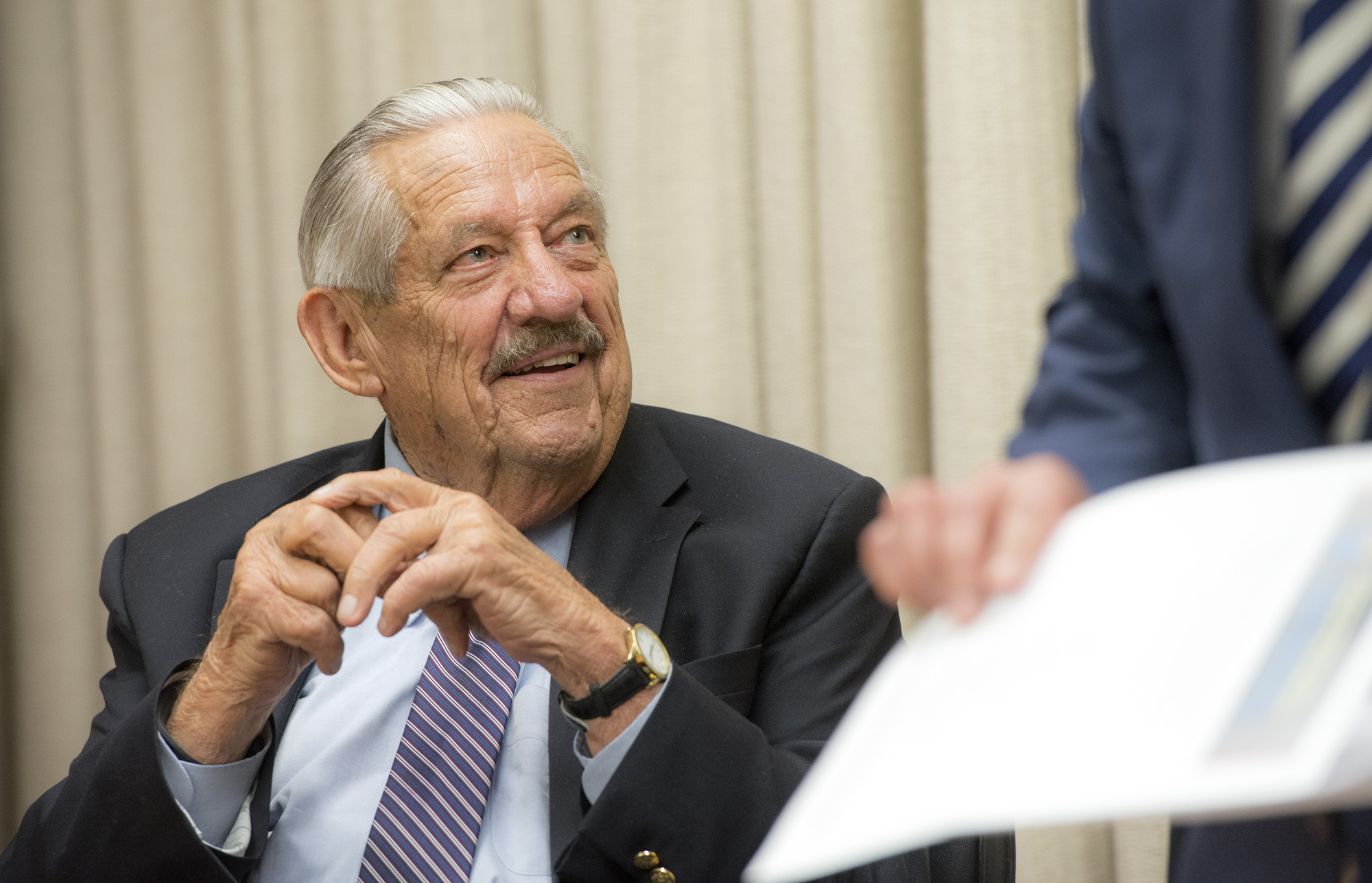 Fred Harris at the LBJ Presidential Library in 2018. The LBJ Presidential Library, along with the University of Texas at Austin's Social Justice Institute and several other campus partners, commemorated the 50th anniversary of the Kerner Commission Report with a panel discussion on Monday, March 5, 2018. The Kerner Commission was appointed by President Lyndon B. Johnson in the aftermath of the 1967 urban race riots to study segregation and racism in America. The discussion about the Kerner Report and racial inequality today was moderated by Dr. Eric Tang, associate professor in UT’s African and African Diaspora Studies Department. Panelists included former U.S. Senator Fred Harris, D-Oklahoma, the last surviving member of the Kerner Commission; Julian Castro, former U.S. Secretary of Housing and Urban Development and a visiting professor at the LBJ School of Public Affairs; and Kathleen McElroy, interim dean of the School of Journalism at UT’s Moody College of Communication.